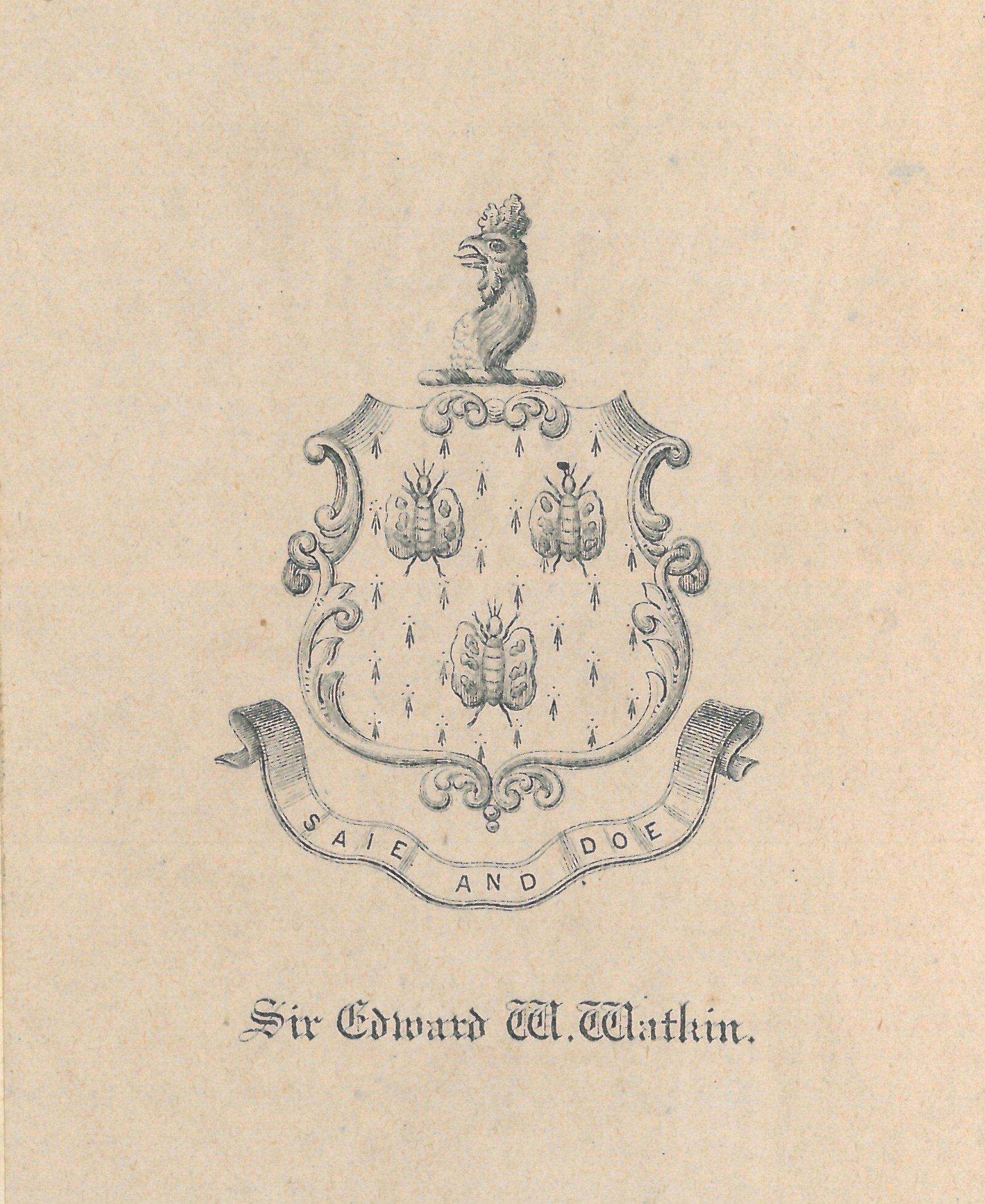 The coat of arms of the Watkin baronets on a bookplate of British Member of Parliament and railway magnate Sir Edward William Watkin (26 September 1819 – 13 April 1901). It is emblazoned as follows: "Argent gutté de poix a leopard's face jessant-de-lis azure between three harvest flies volant proper. Crest: a cock’s head couped transfixed through the mouth by a tilting spear palewise all proper." The motto is "Saie and doe" (probably "Say and do"): see Bernard Burke (1878) The General Armory of England, Scotland, Ireland, and Wales; Comprising a Registry of Armorial Bearings from the Earliest to the Present Time, London: Harrison, p. cxxviii OCLC: 752749300.